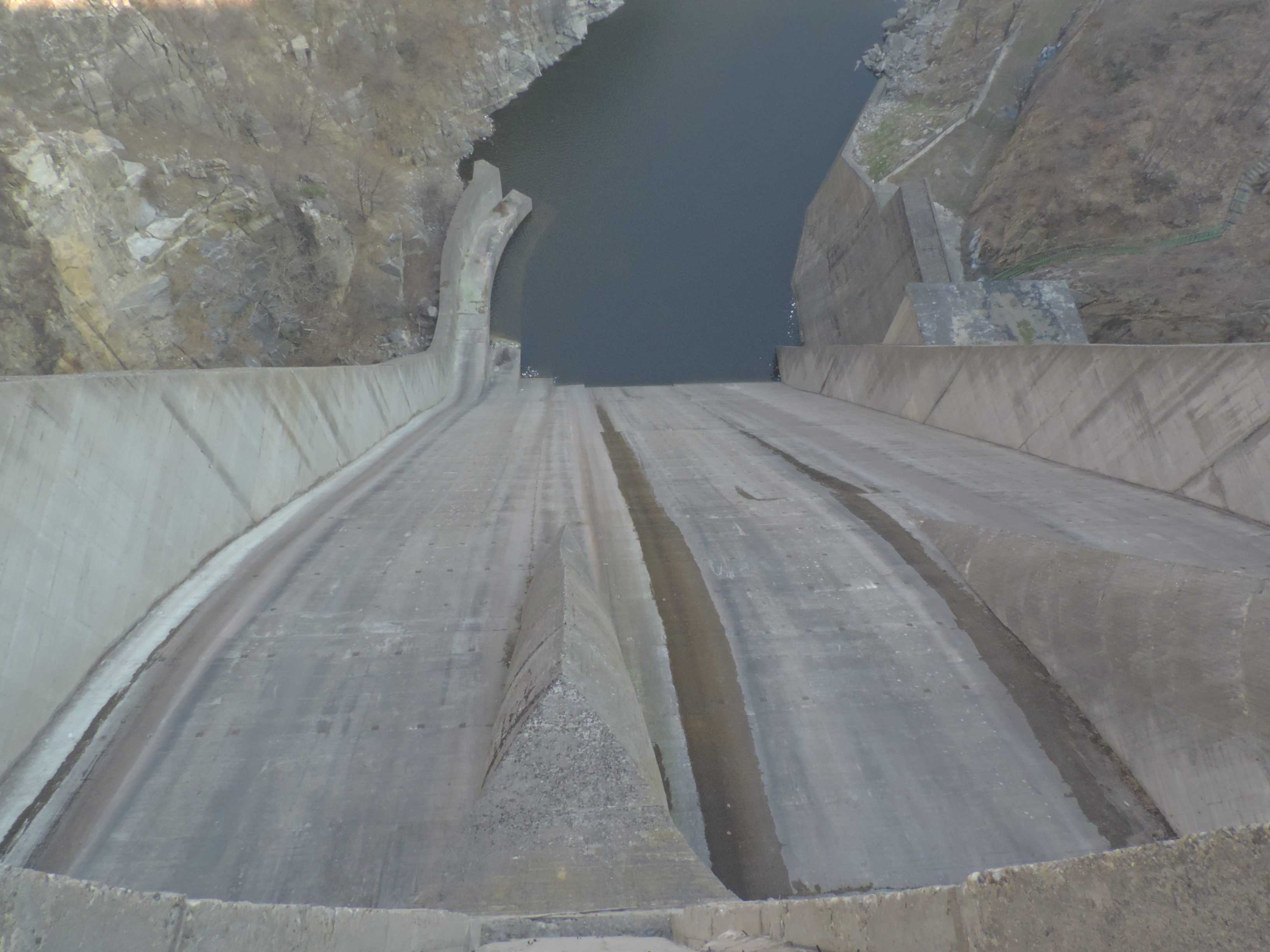 Top-down view from the wall of Krichim Reservoir. Wall height: 104.5 metres.